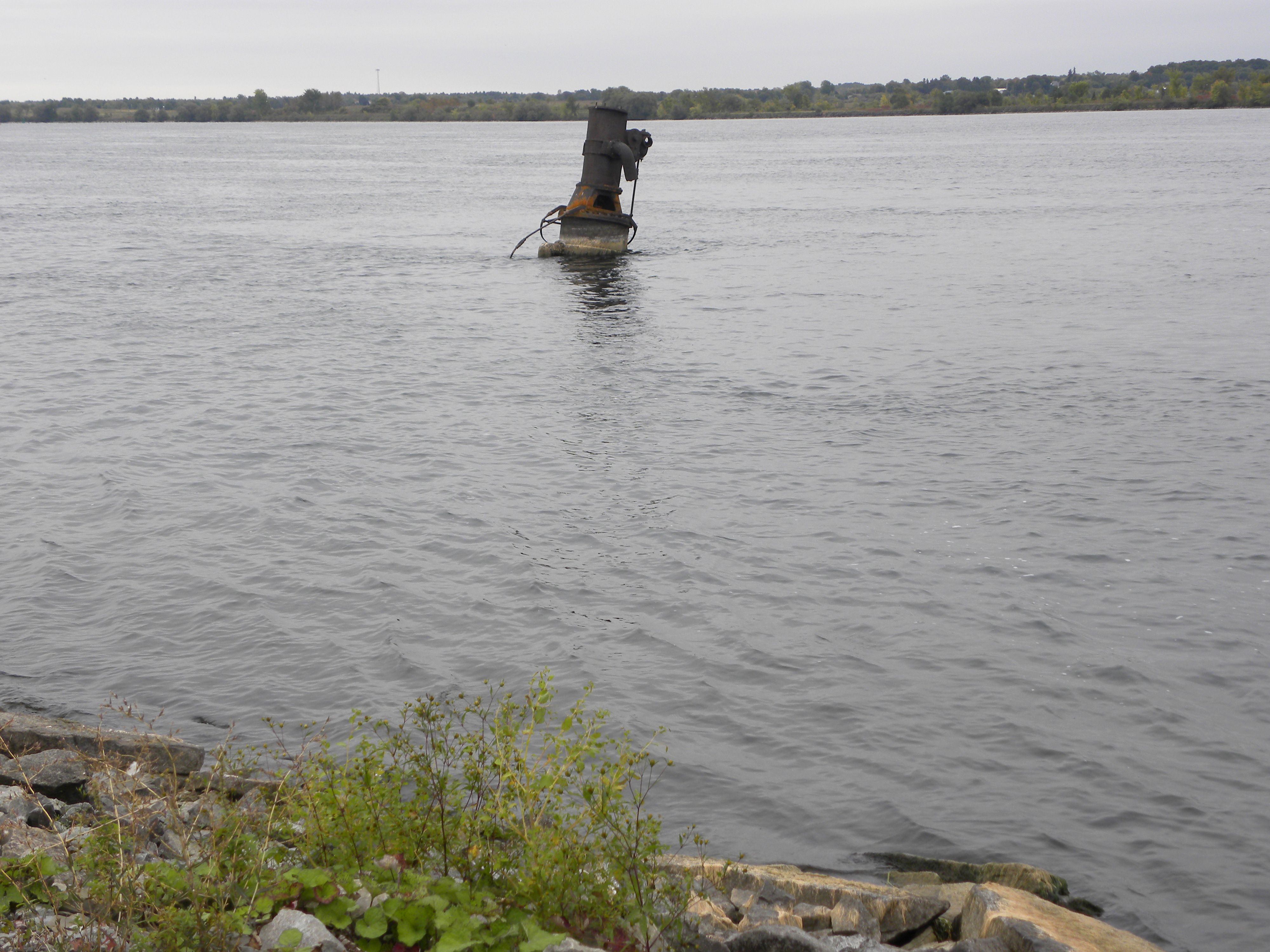 Sunken ship available for divers to explore in Galop Canal, Ontario, Canada